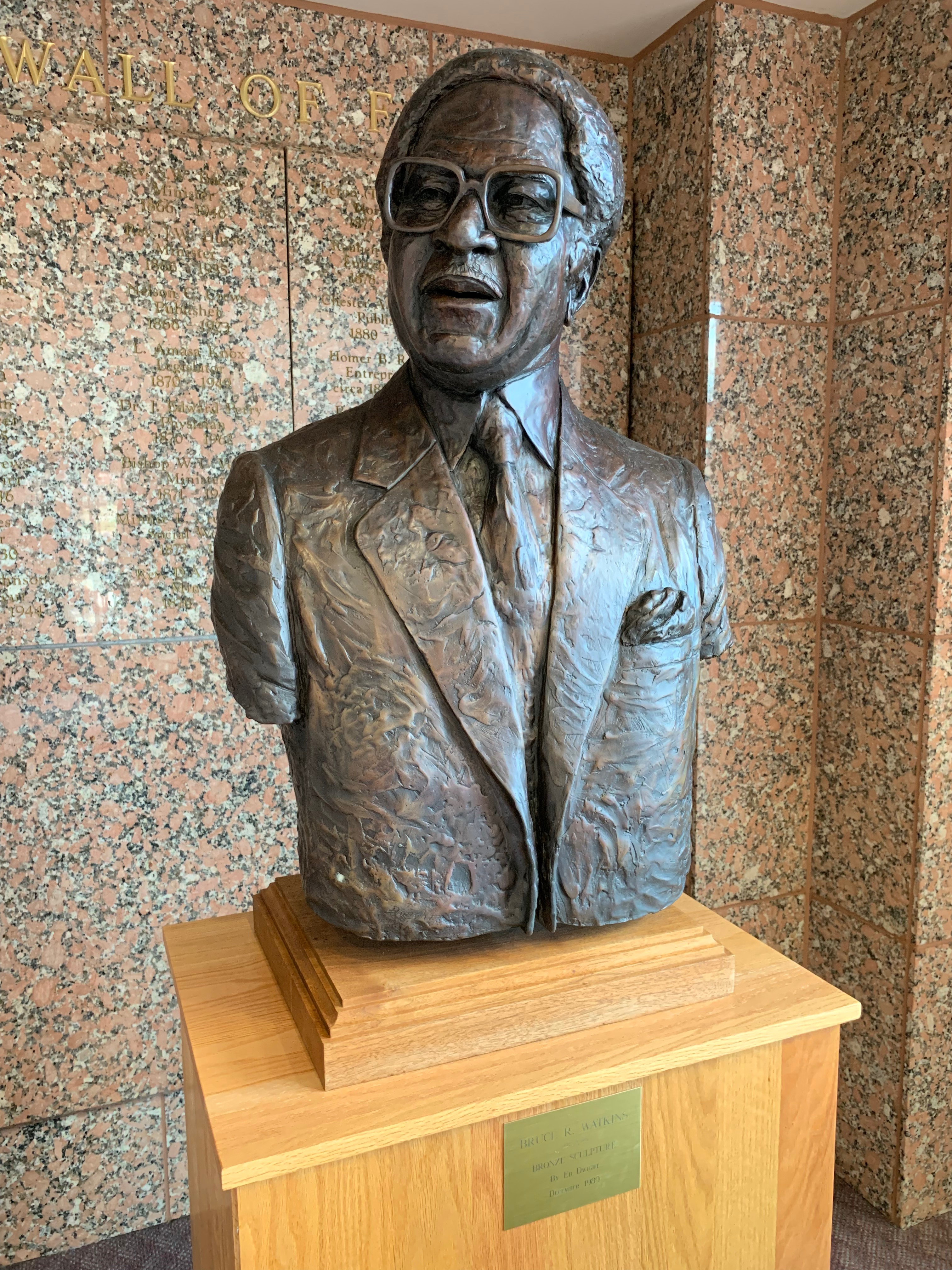 Bust created by Ed Dwight, sculpture is housed at the Bruce R. Watkins Cultural Center in Kansas City, MO